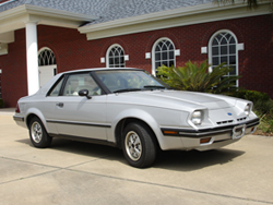 I created this image I own copyright to it and I am making it available for use on Wikipedia